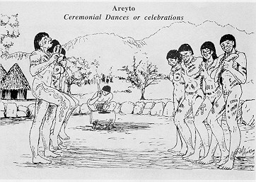 Drawing of an Areyto Ceremony of the Taínos